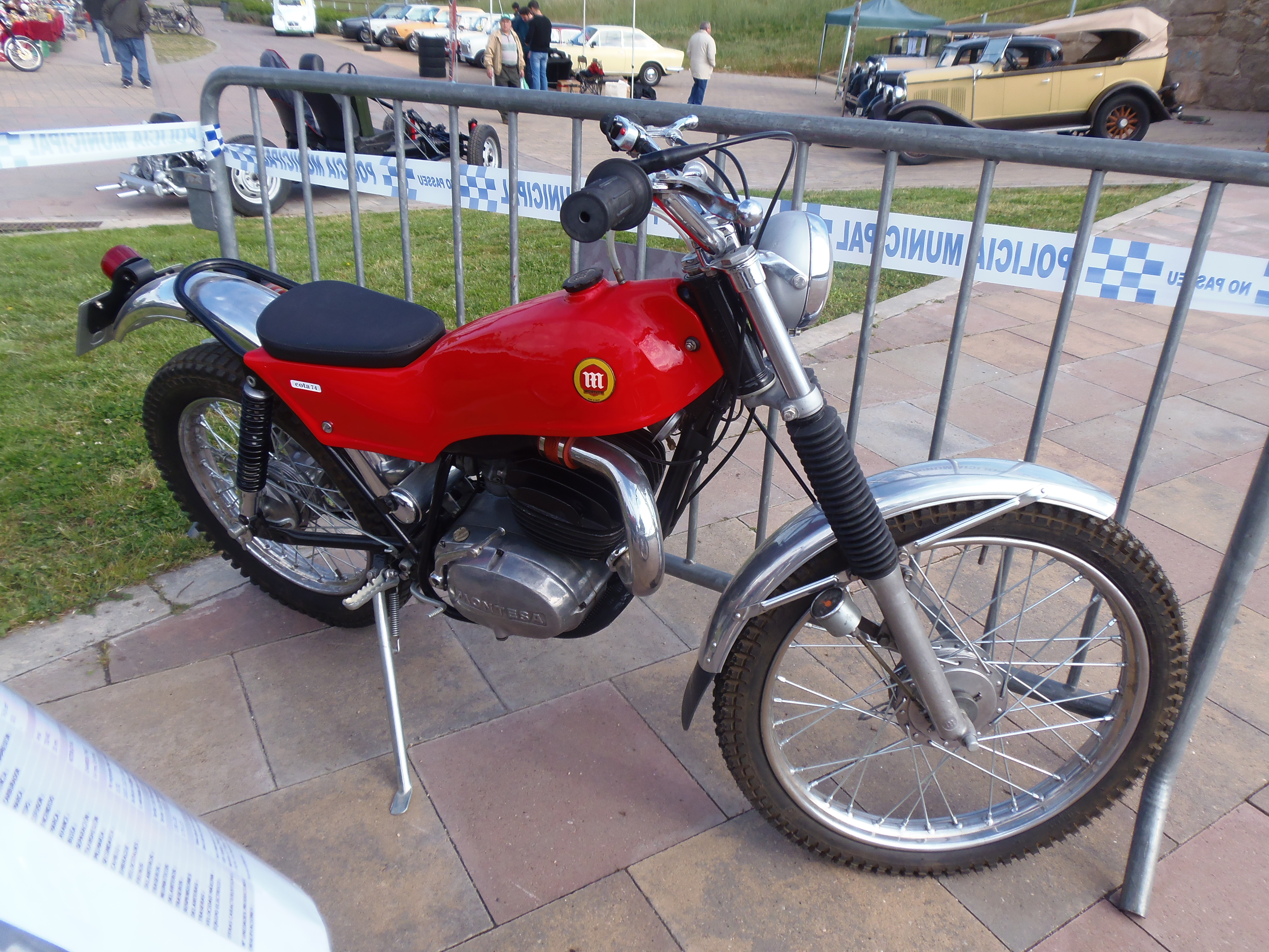 Montesa Cota 74, 1974